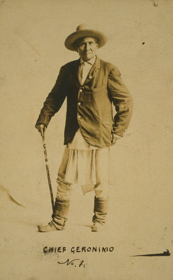 Geronimo, full-length portrait, standing, facing front, with walking stick.